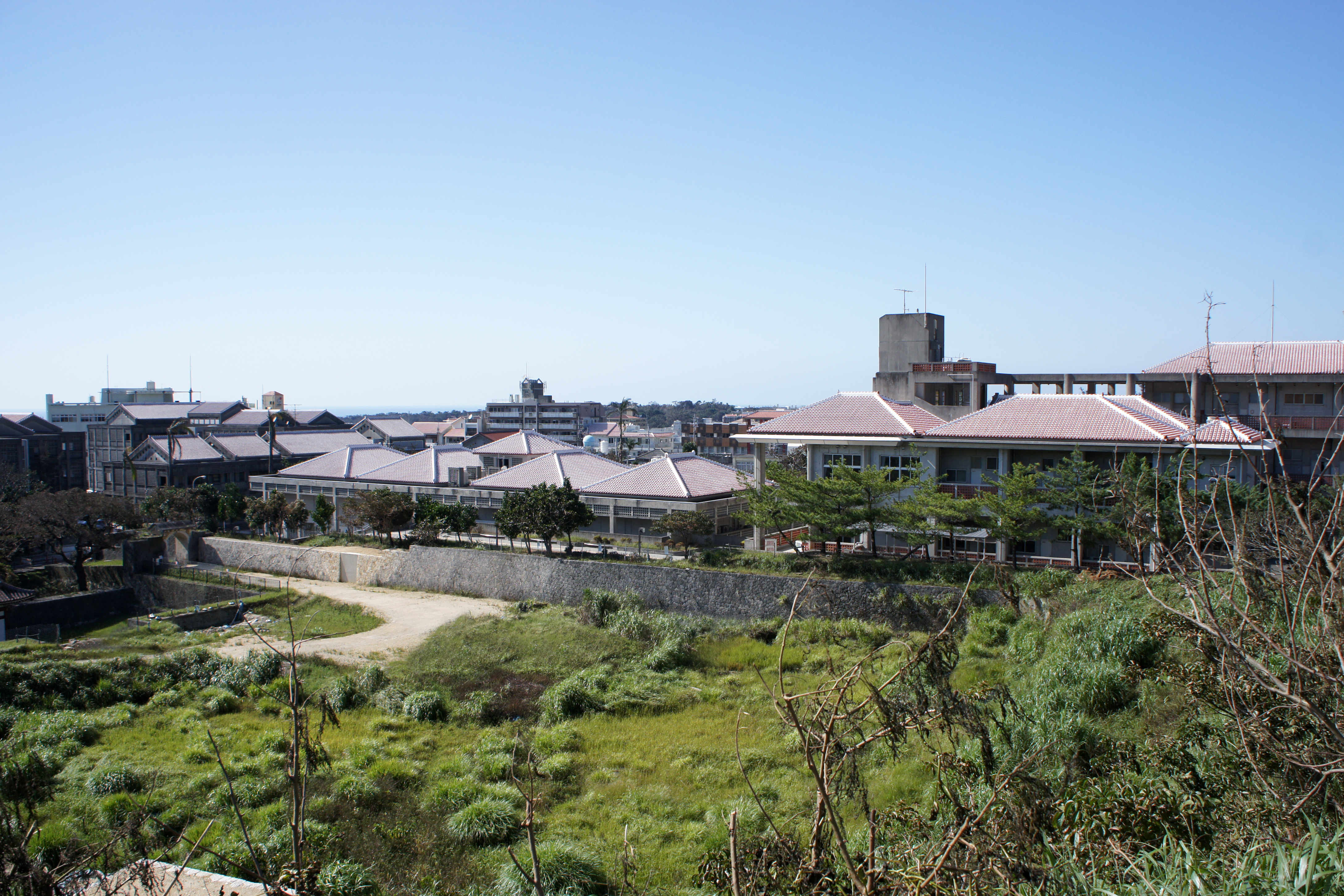 Okinawa Prefectural University of Arts in Naha, Okinawa prefecture, Japan.